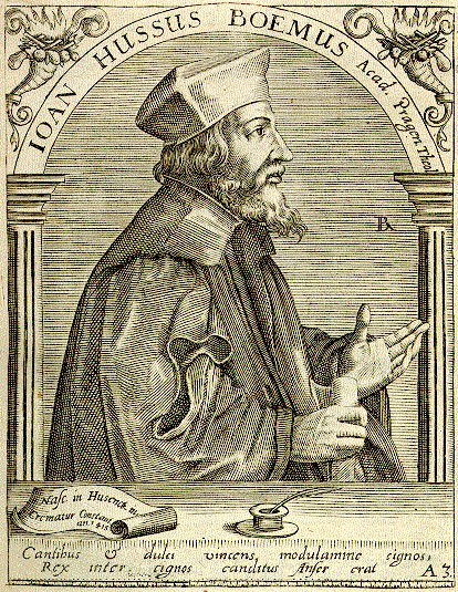 Jan Hus (c.1370-1415). In: Bibliotheca chalcographica, hoc est Virtute et eruditione clarorum Virorum Imagines. Heidelberg: Clemens Ammon, 1669